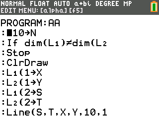 The given TI-BASIC code was written by me. It is the first few lines of a program that draws a quadratic Bézier curve.